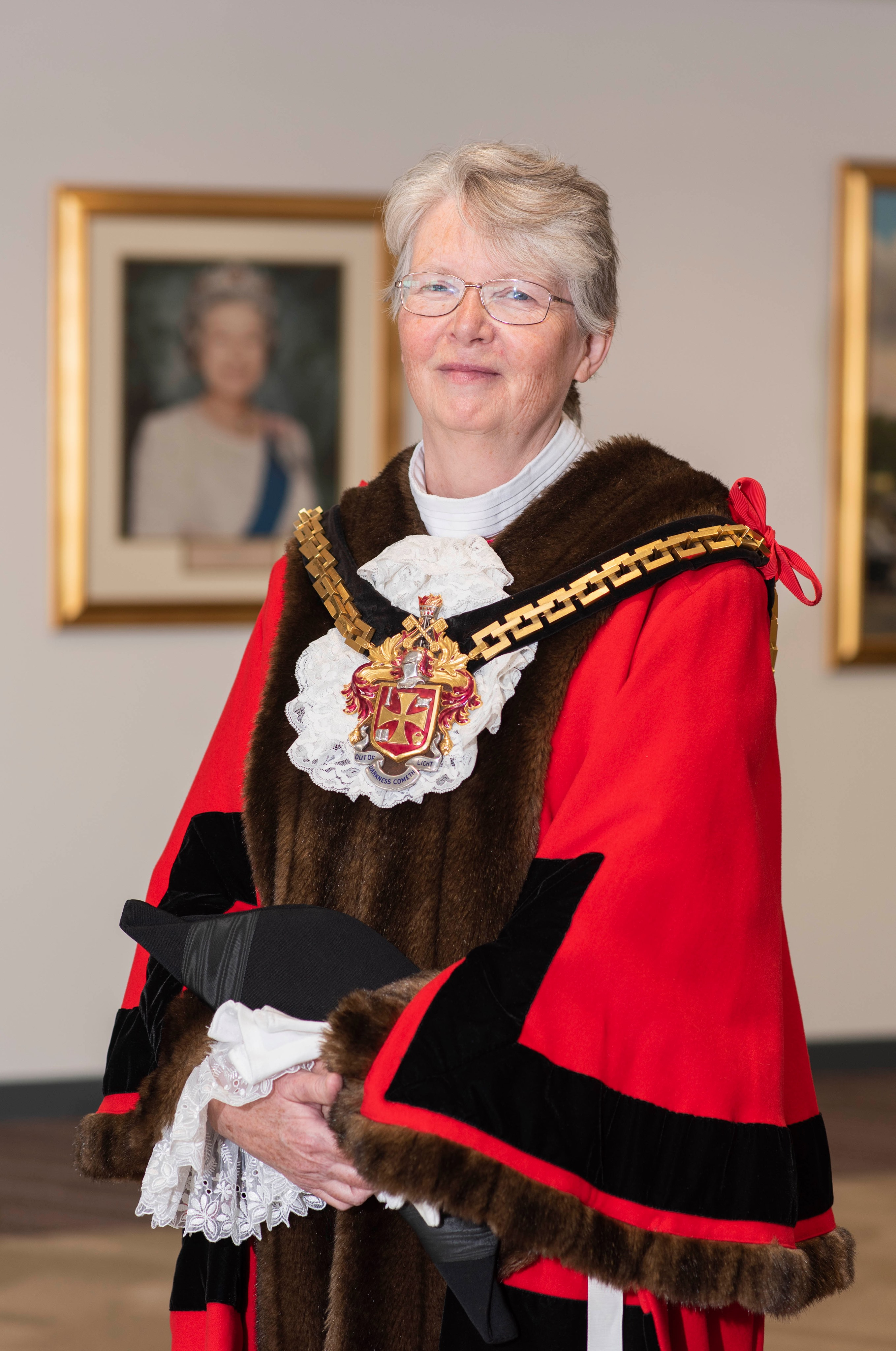 Claire Darke with portrait of Elizabeth II in the background